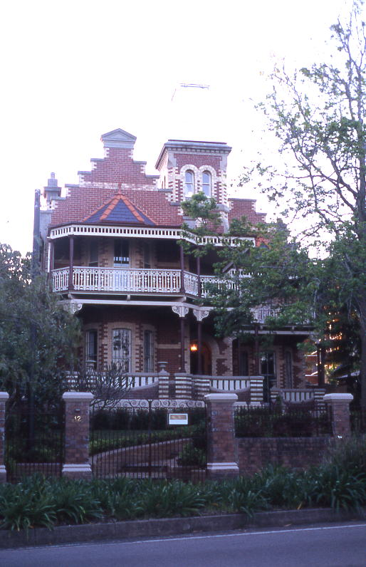 Italianate home, Lang Road, Centennial Park, Sydney, photo by Sardaka 11:42, 11 October 2007 (UTC)